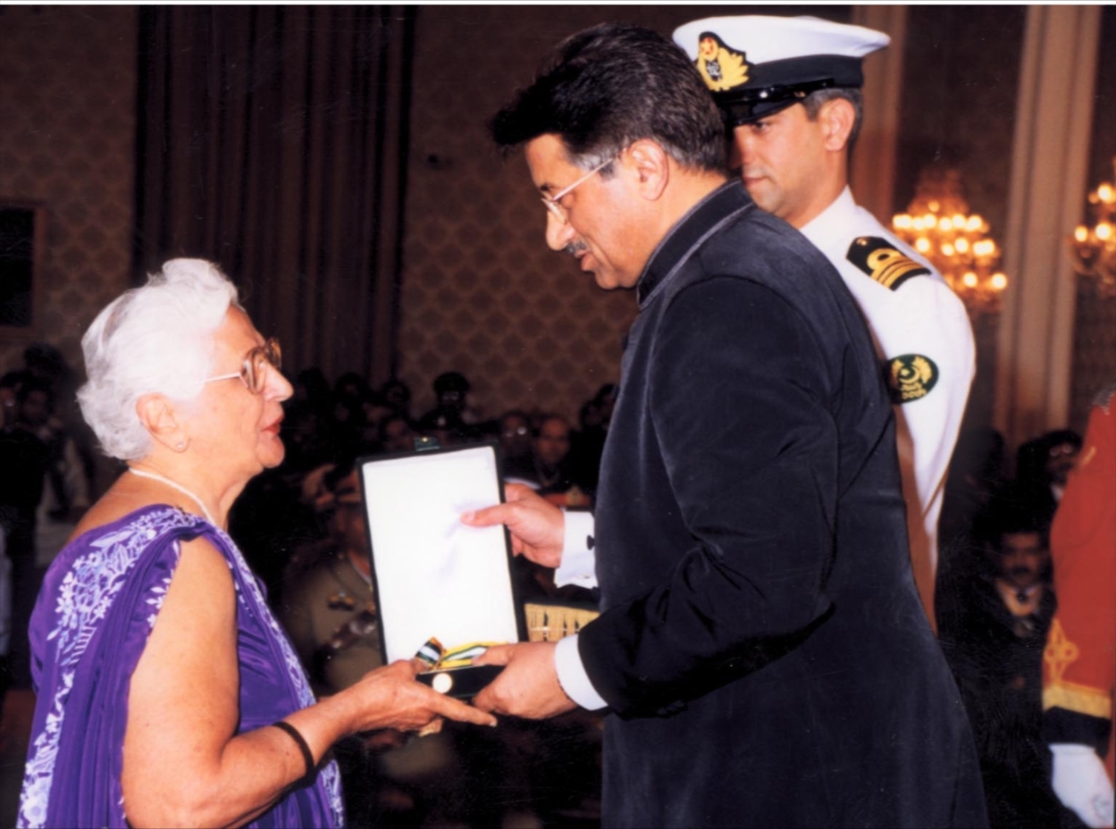 Mrs. Mistri receiving the Pride of Performance from President Pervaiz Musharraf for her dedication and service to the cause of education in Pakistan.